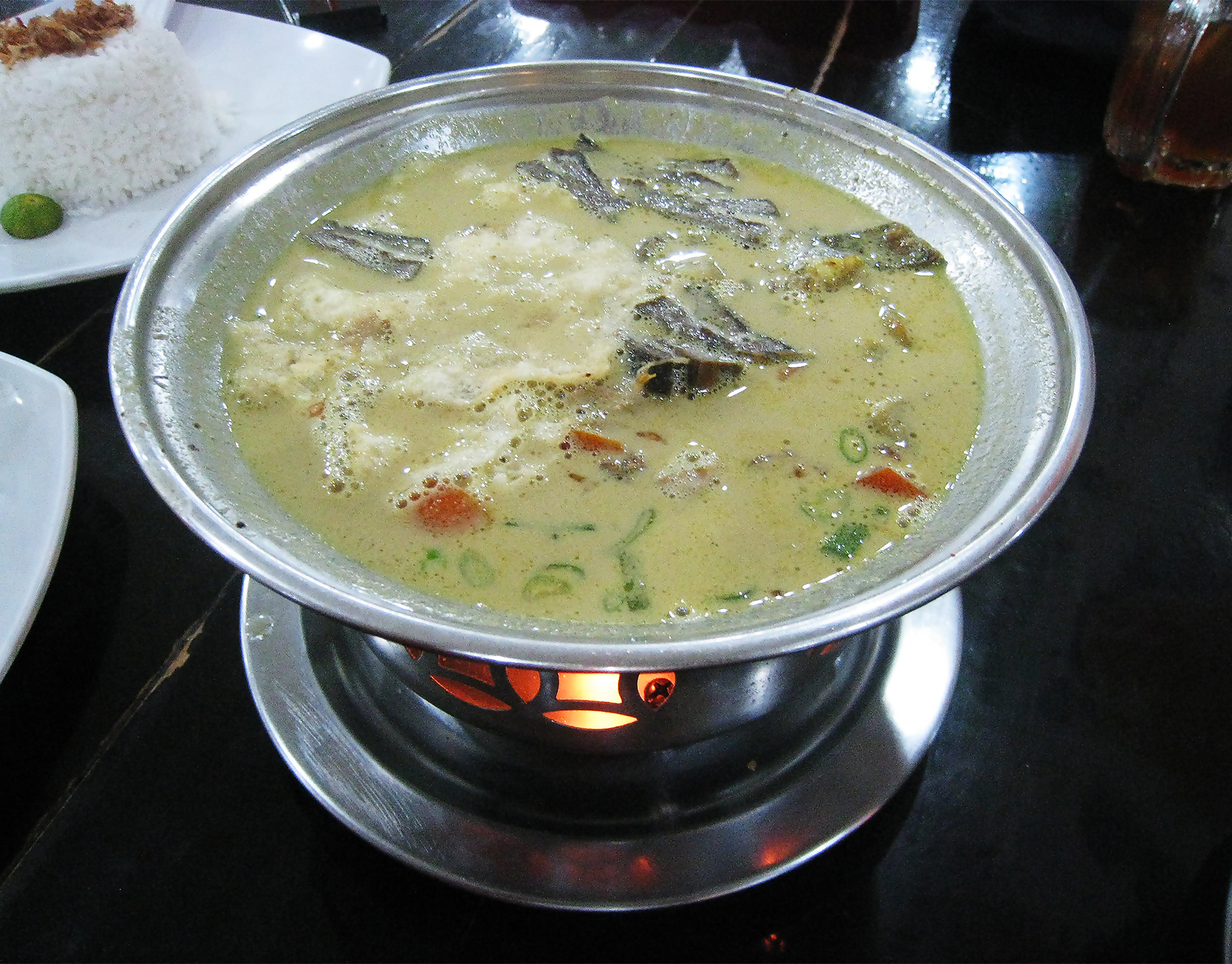 Soto Betawi (beef soup), authentic Betawi (native Jakartans) food served in Sarinah Foodcourt, Central Jakarta, Indonesia.